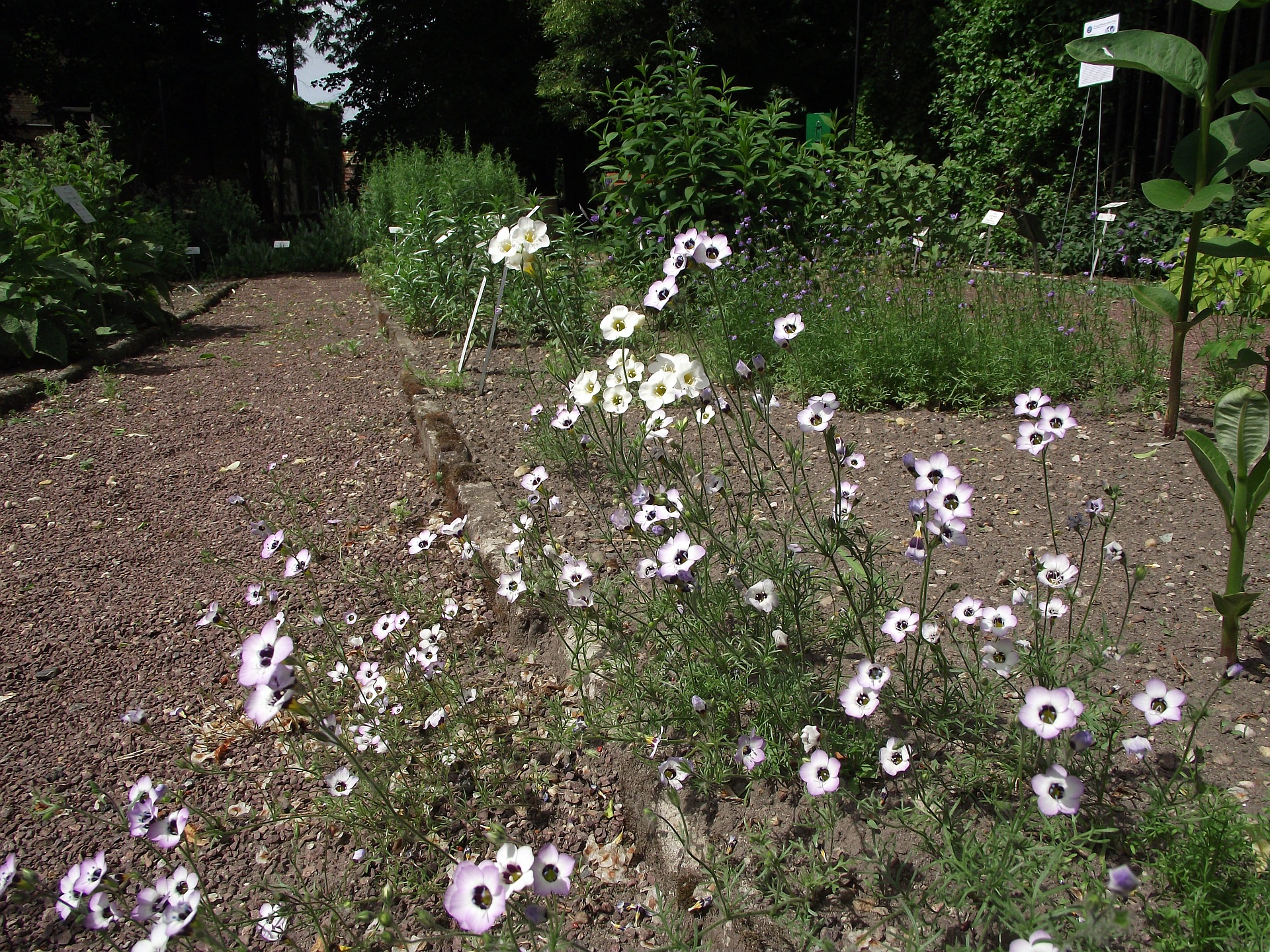 Gilia tricolor (Bird's-eye Gilia) is an annual plant native to the Central Valley and foothills of the Sierra Nevada and Coast Ranges in California